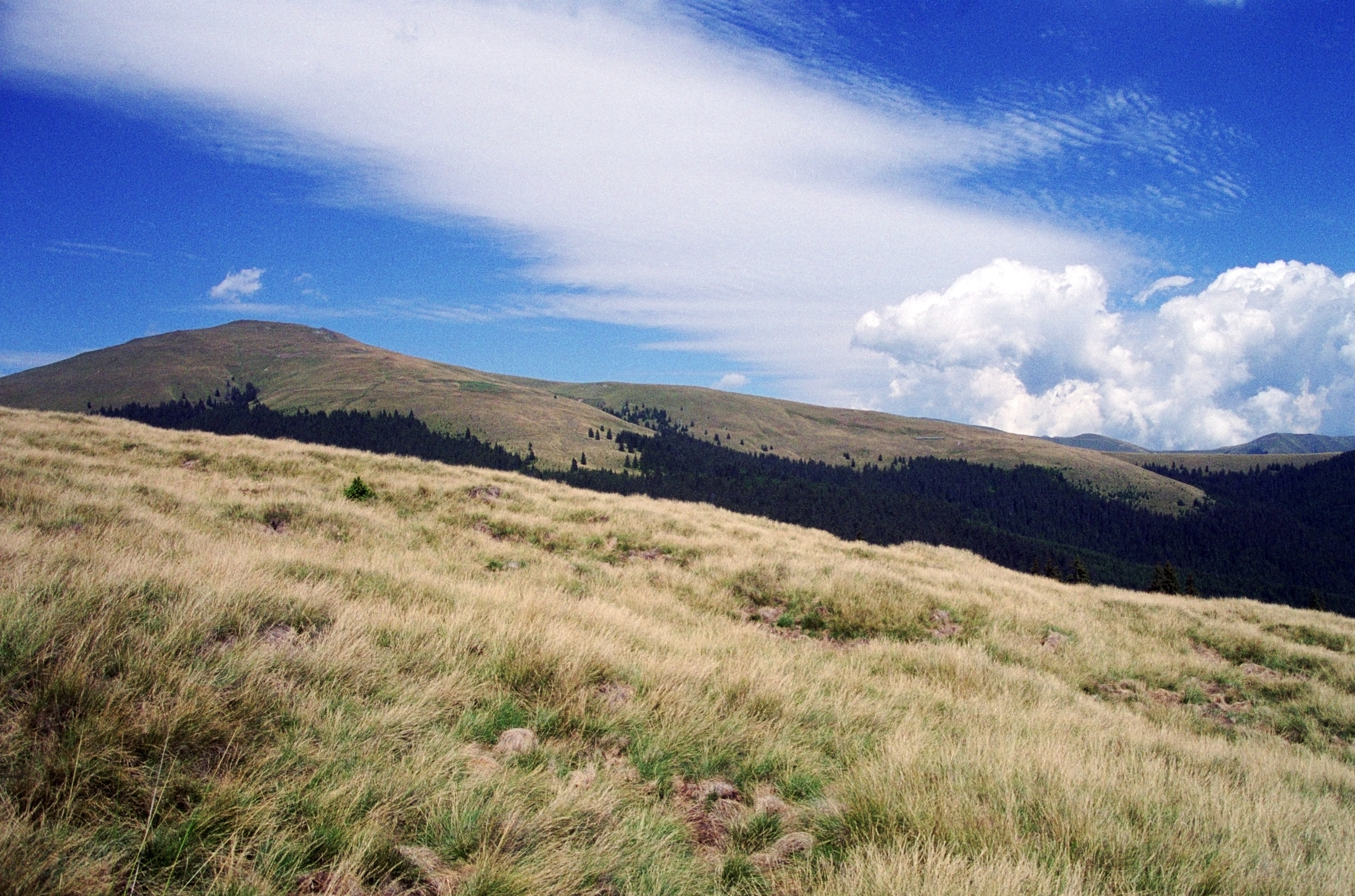 Iezer-Păpușa mountains, summit Papau (2093 m), Romania